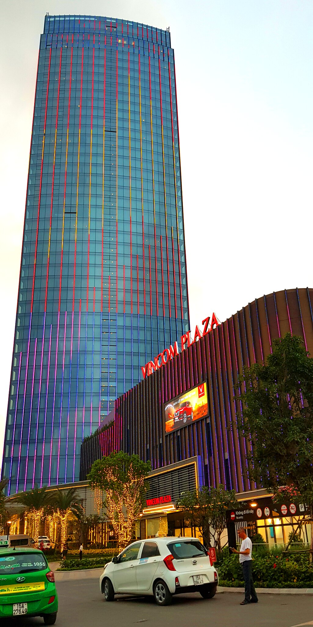 45 floors hotel building in Hai Phong city Imperia